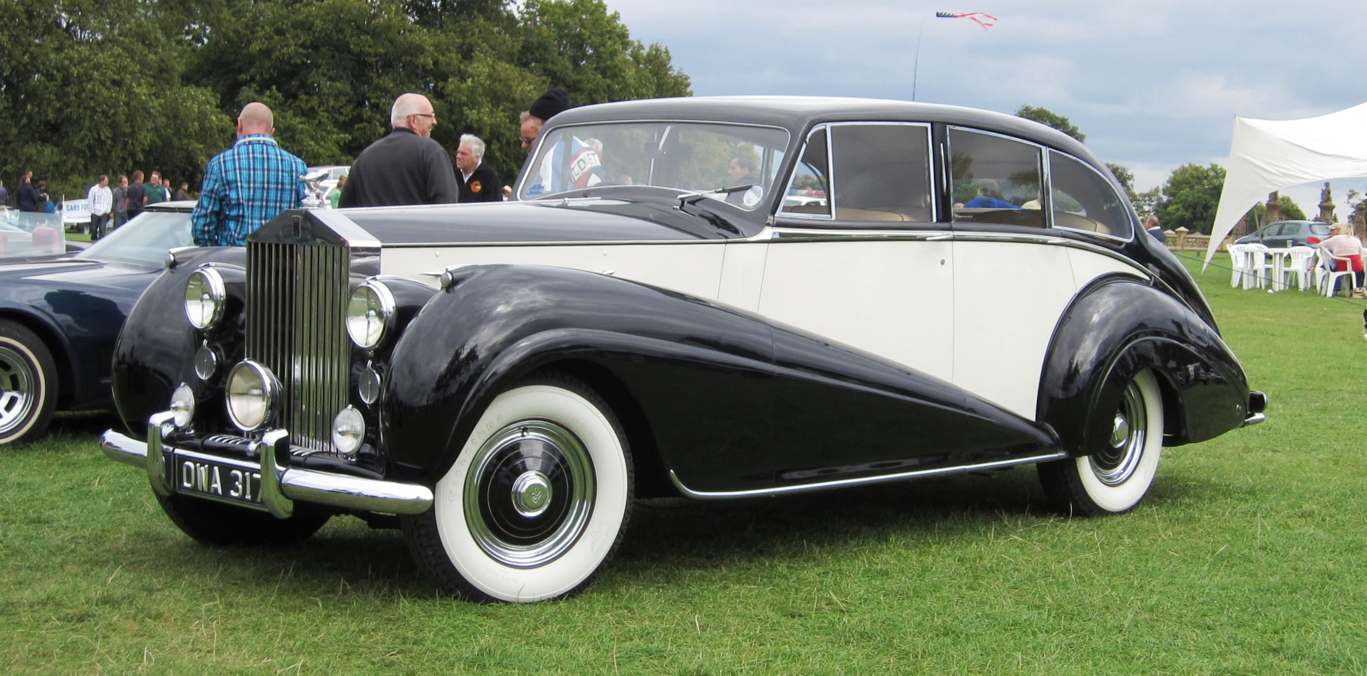 Rolls Royce sedan with Park Ward bodywork at Knebworth classic car show